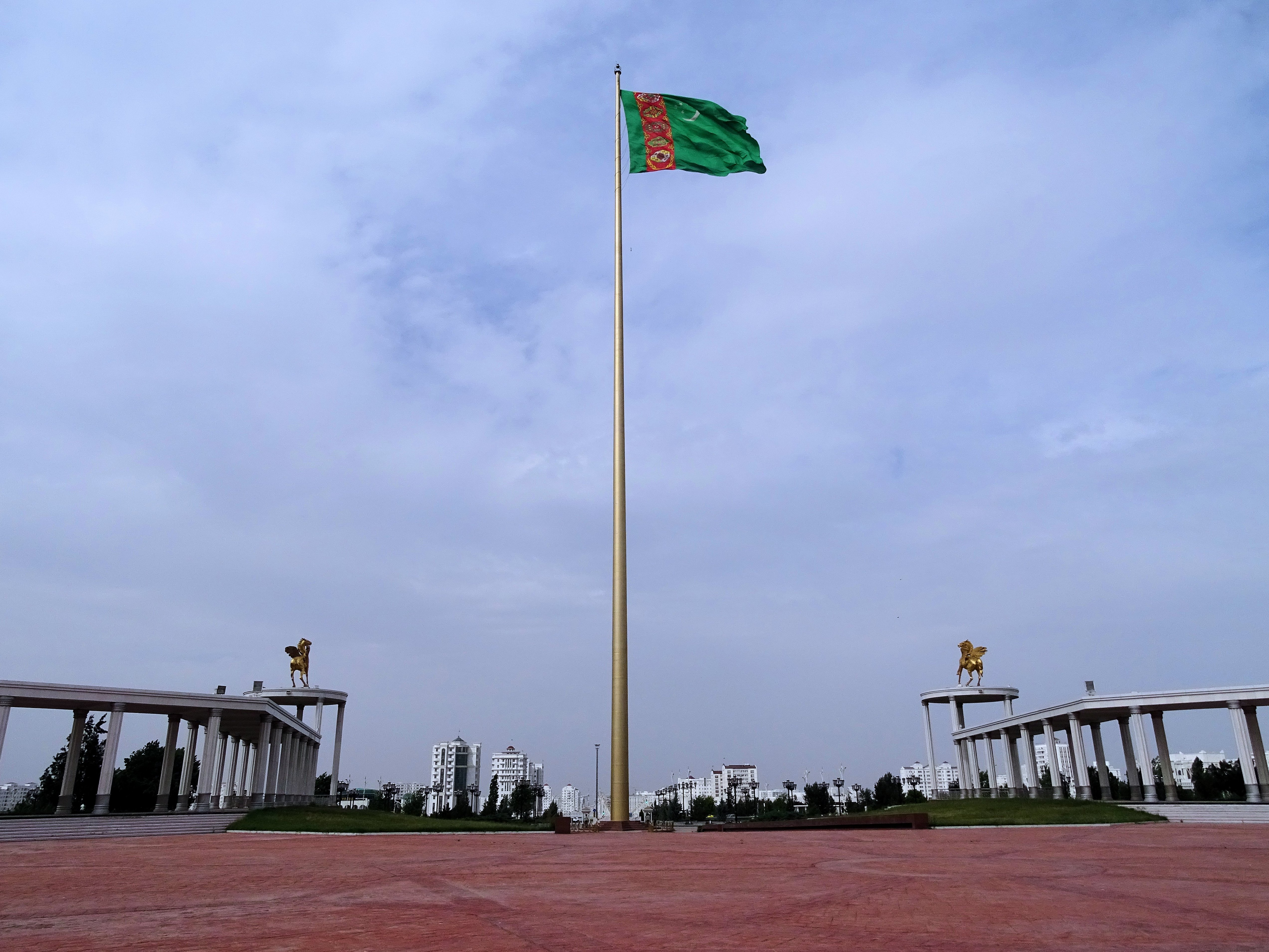 The Ashgabat Flagpole is one of the tallest on planet Earth.